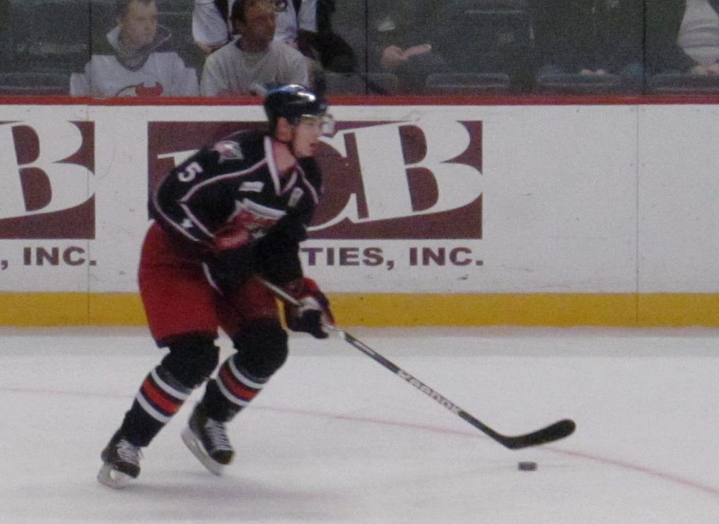 Nick Holden of the Springfield Falcons during an American Hockey League game (Springfield Falcons @ Albany Devils - Jan 5, 2013)